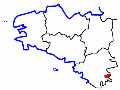 Description: Map for localisazion of cantons of Pays-de-Loire, region in France Source: made by Hervé Tigier in april 2005 from another large map (published in 1990)